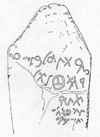 Punic Script found as engraving on a stone in Delles, Algeries. It says: "Amet Baal daughter of Jerjem place this stone...).